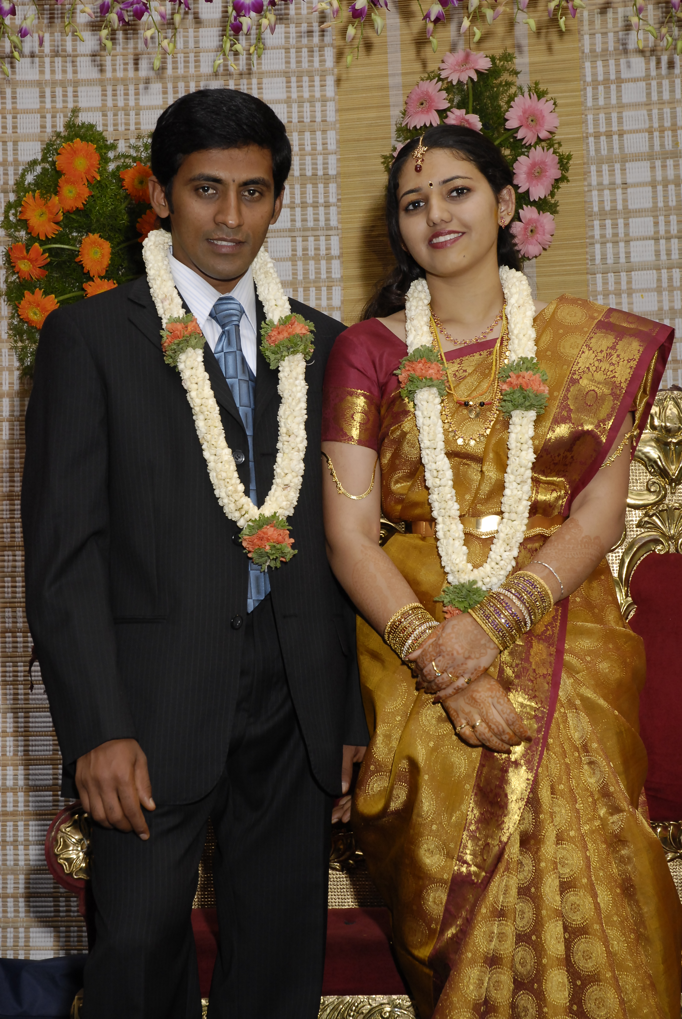 This is the photo from the wedding reception of Arjun Bhavana